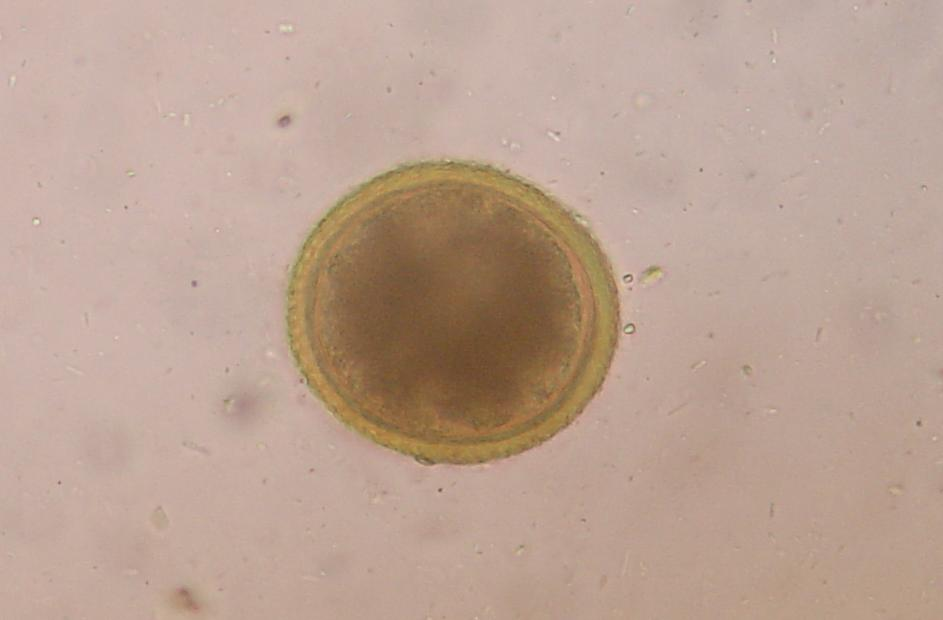 A canine roundworm (Toxocara canis) egg. Photo taken through a microscope at 400x.